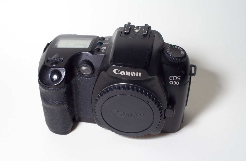 Canon EOS D30 camera body.